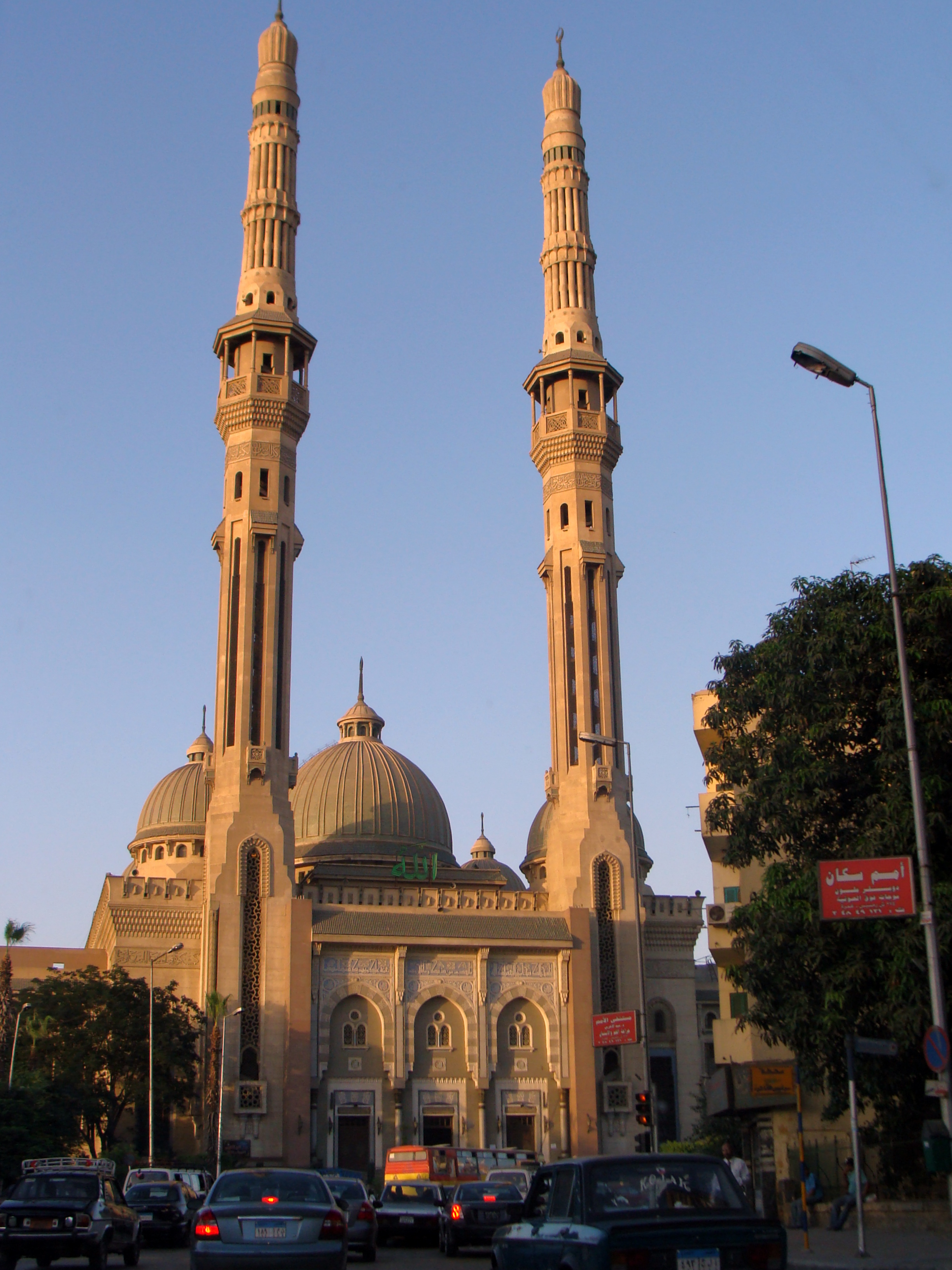 El nour mosque in AL Abaseya Cairo Egypt